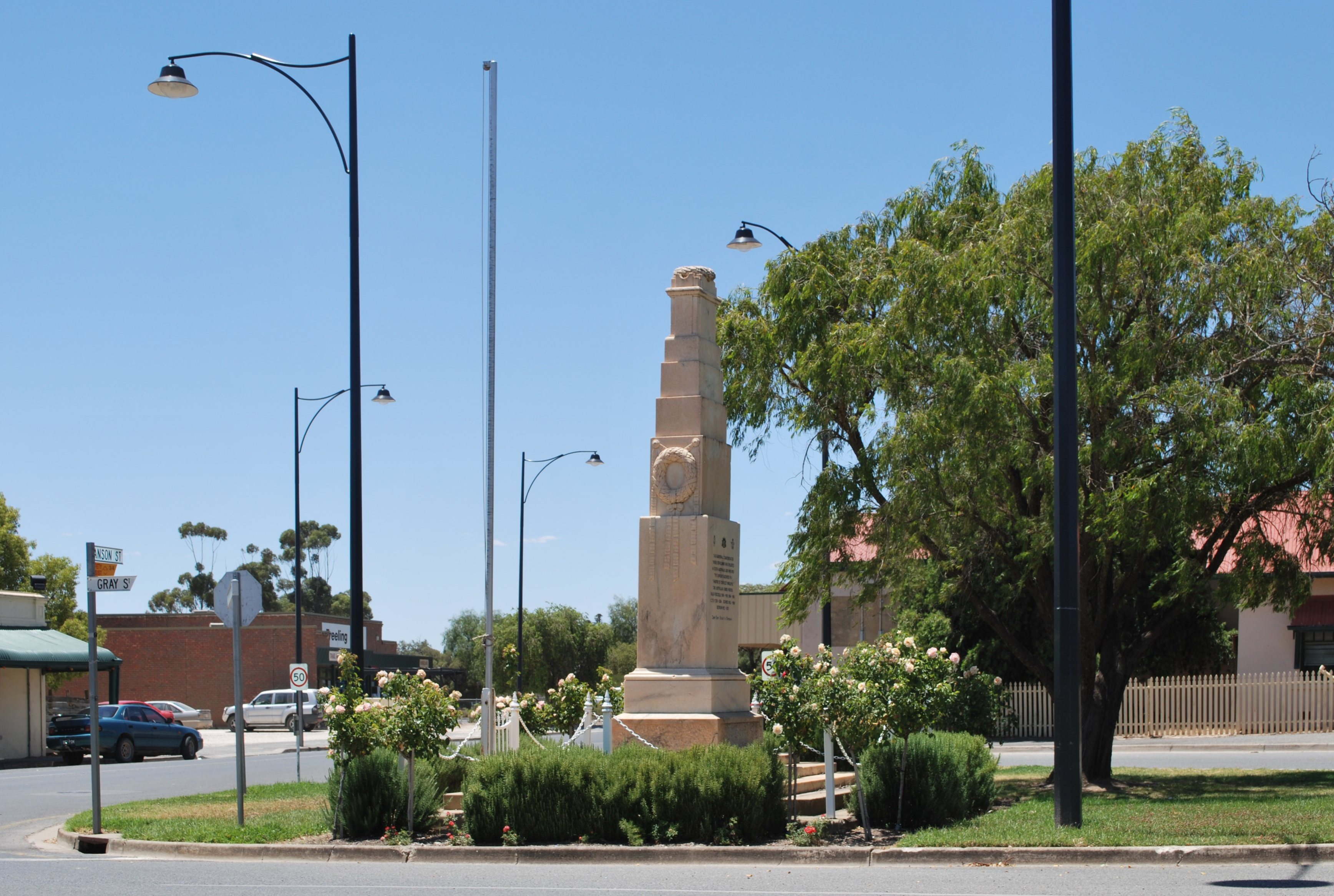 War memorial at Freeling, South Australia